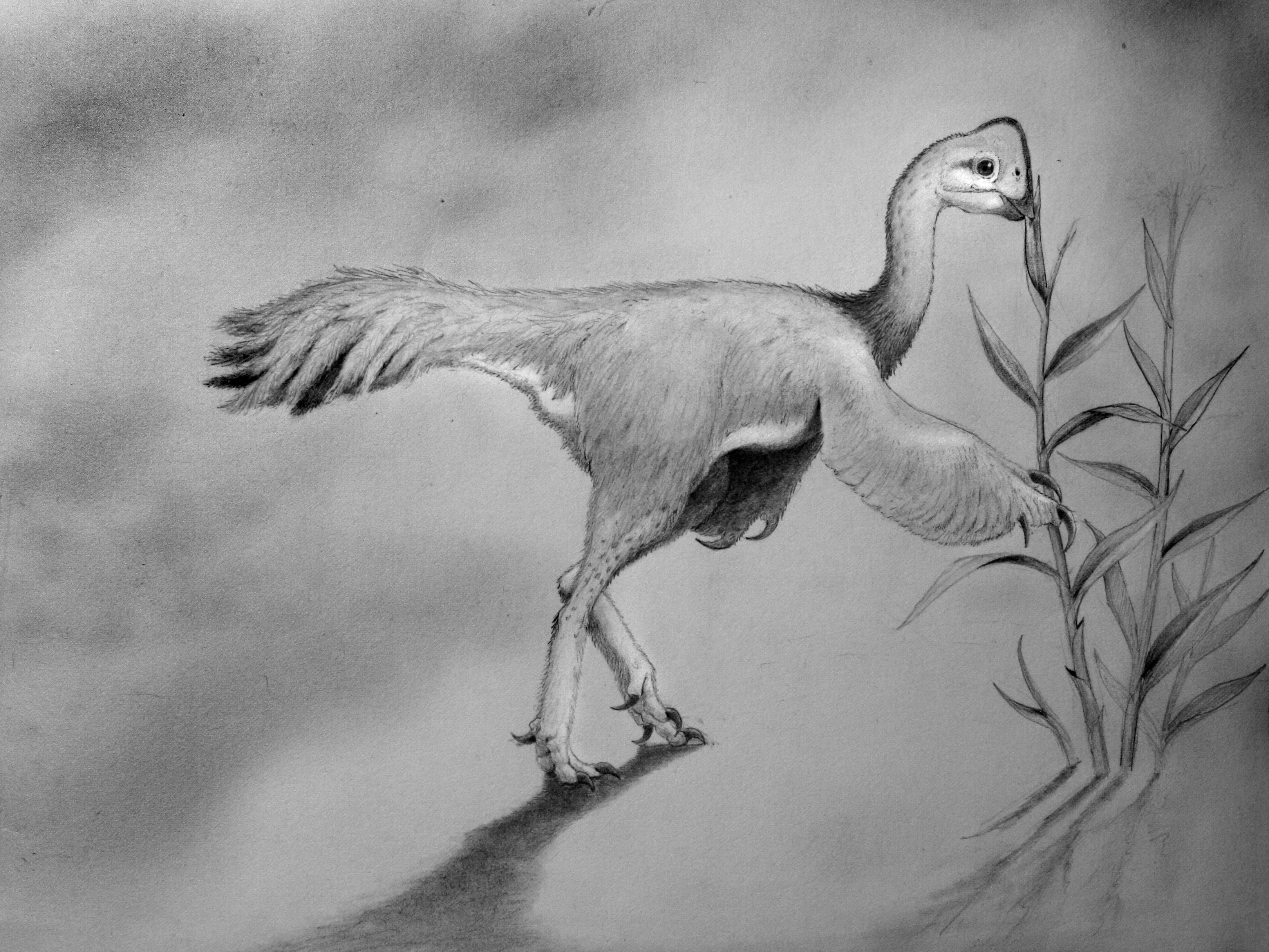 Leptorhynchos, a small caenagnathid from the Campanian of Western North America. Original work in pencil and charcoal by Nick Longrich. Additional digital editing in Adobe Photoshop by Nick Longrich.